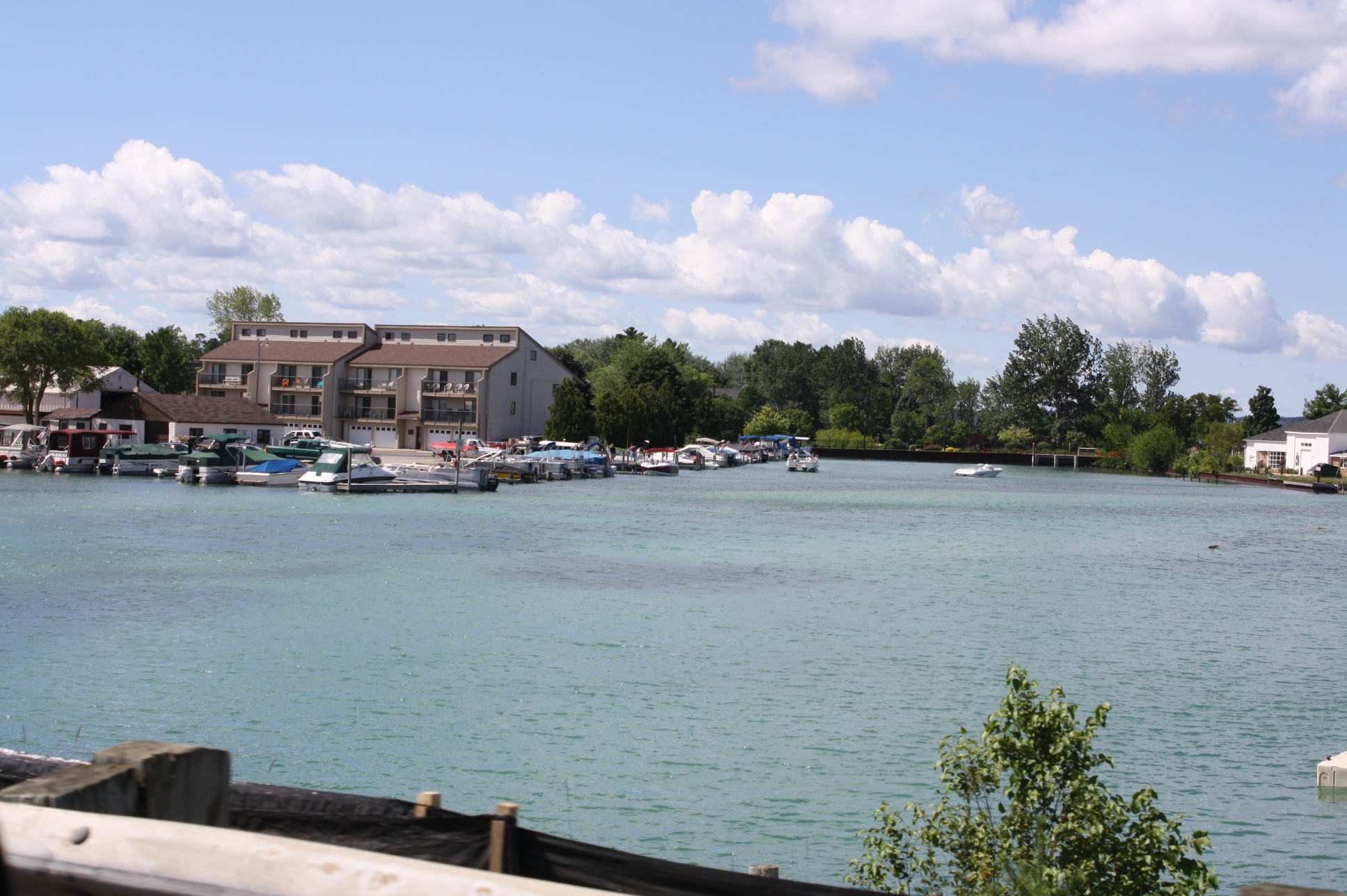 The Elk River in Elk Rapids, Michigan on U.S. Route 31.